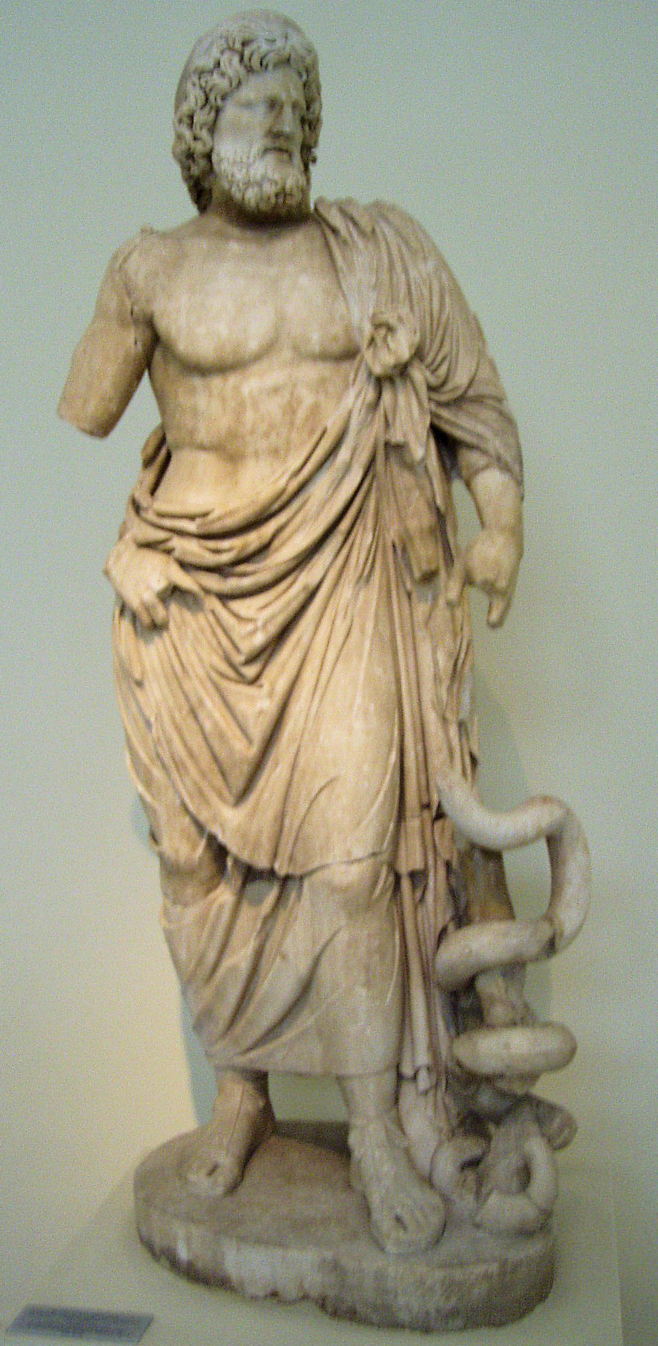 Statue of Asklepios the NAMA, Nr 1450.